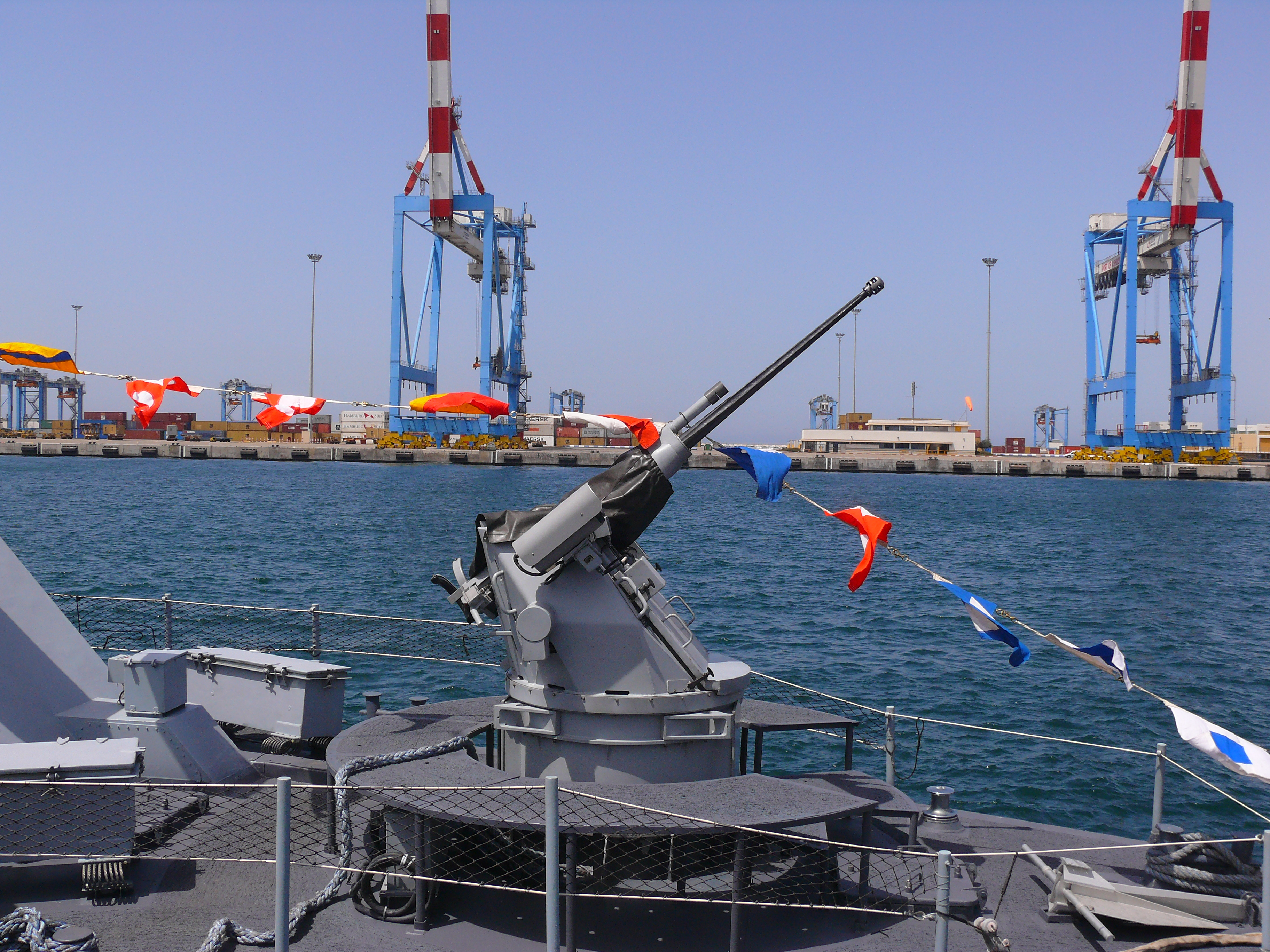 Rafael's Typhoon stabilized 25mm gun